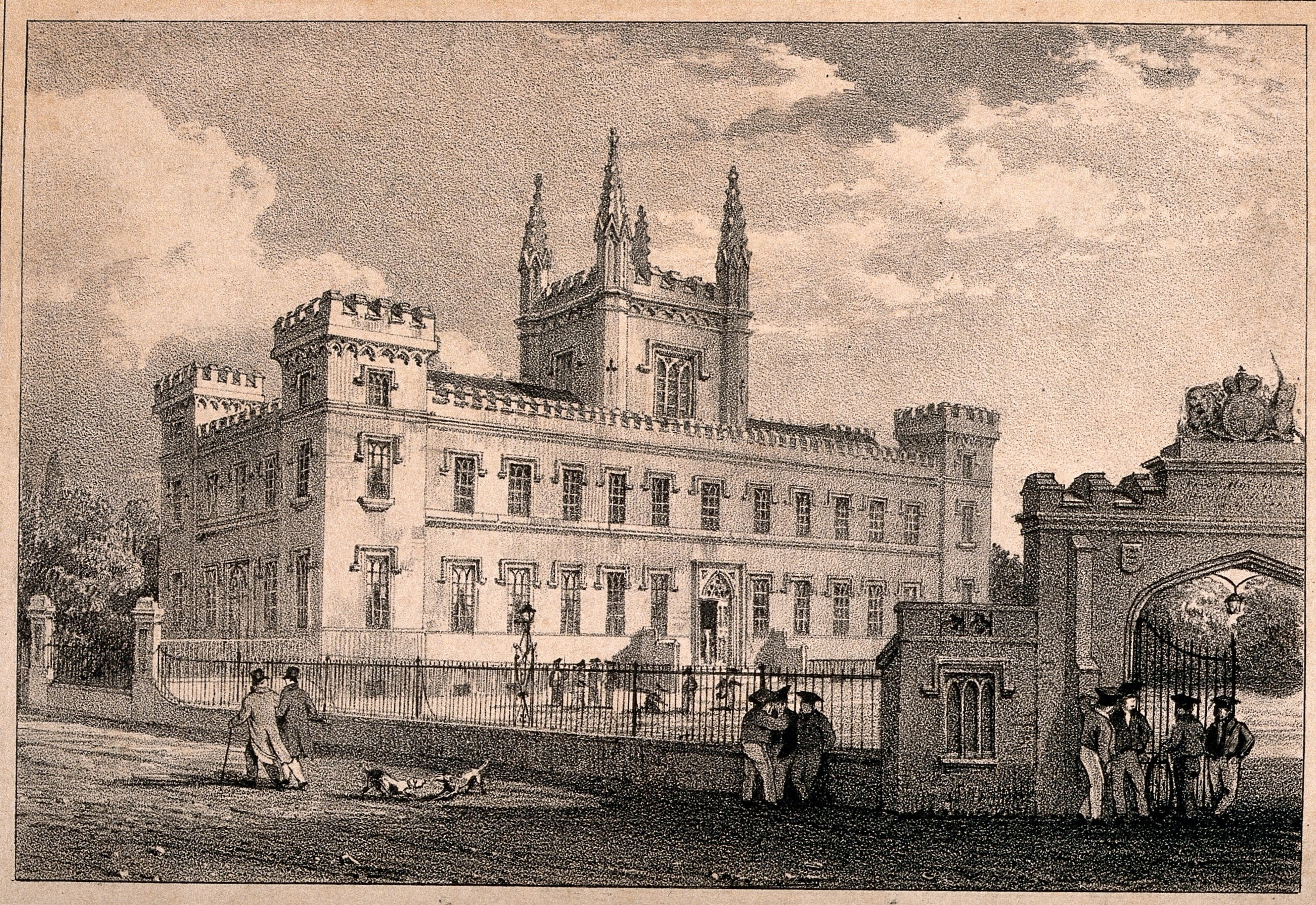 V0012715 The Royal College of Elizabeth, Guernsey, Channel Islands. L Credit: Wellcome Library, London. Wellcome Images The Royal College of Elizabeth, Guernsey, Channel Islands. Lithograph by C. Haghe after J. Wilson. By: John Wilsonafter: Charles HaghePublished: - Copyrighted work available under Creative Commons Attribution only licence CC BY 4.0 This is an adaptation of the original work, allowed under CC BY 4.0 licence. (cropped)